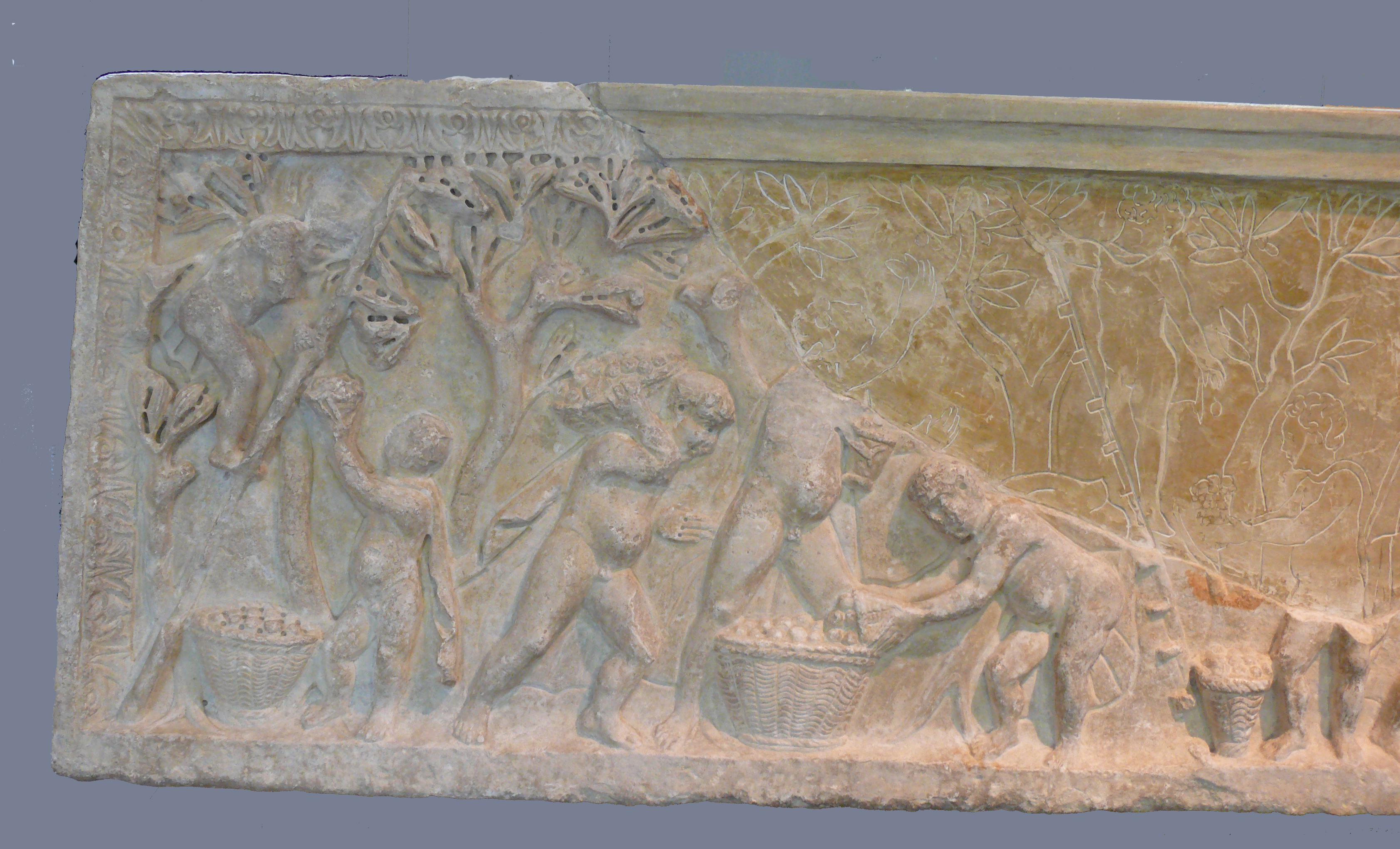 Sarcophagus with olive harvest. Carrara marble. Provenance: Alyscamps First part of the 4th century. Musée de l'Arles et de la Provence antiques FAN.92.00.2481